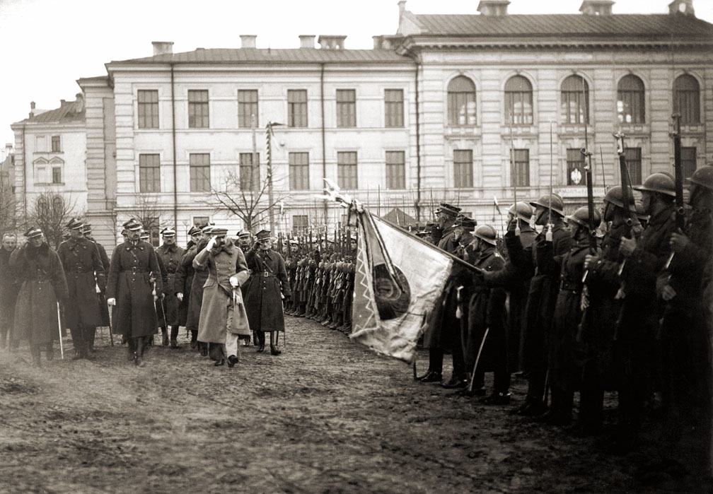 Józef Piłsudski, Edward Śmigły-Rydz, Kazimierz Sosnkowski, Stanisław Szeptycki in front of soldiers of Polish Army. Wilno, Łukiski Square 17.04.1919